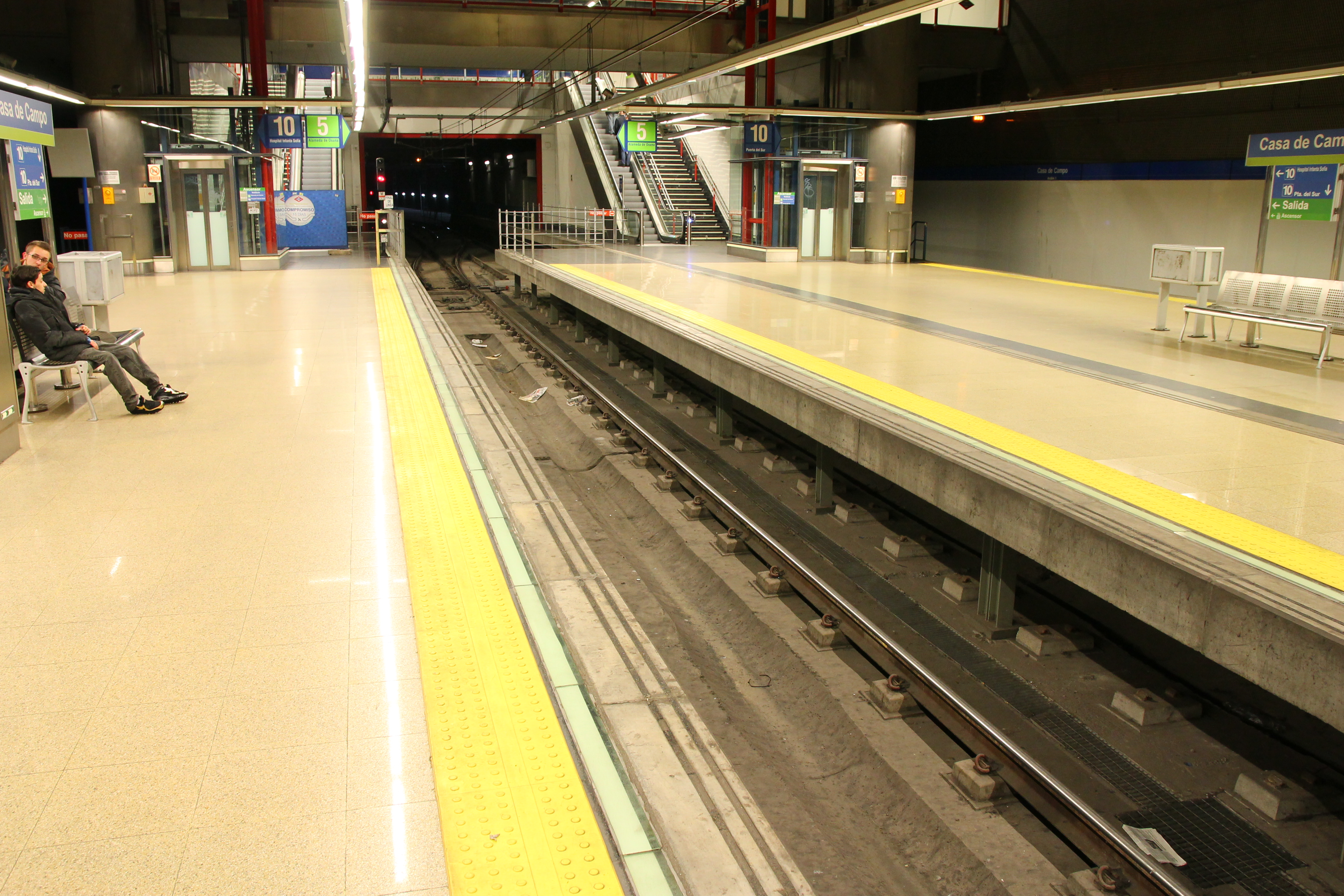 Casa de Campo metro station, Madrid